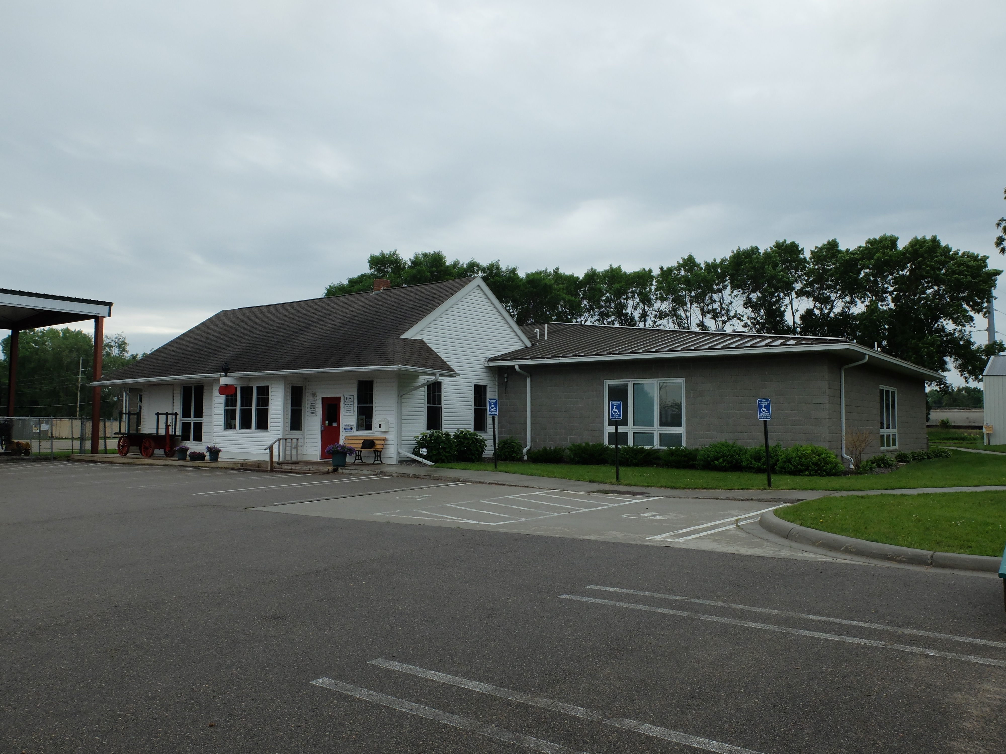 Front exterior of the Kandiyohi County Museum. Operated by the Kandiyohi County Historical Society. 610 Hwy 71 Service Rd, Willmar, MN 56201